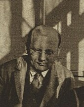 Václav Poláček (1898-1969), Czech Publisher